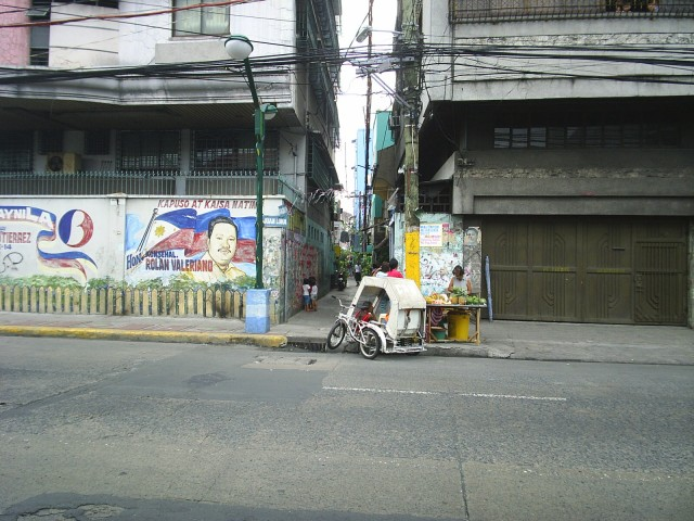 Street vendor selling fruit on Juan Luna and Kagandahan Street, Tondo, Manila.